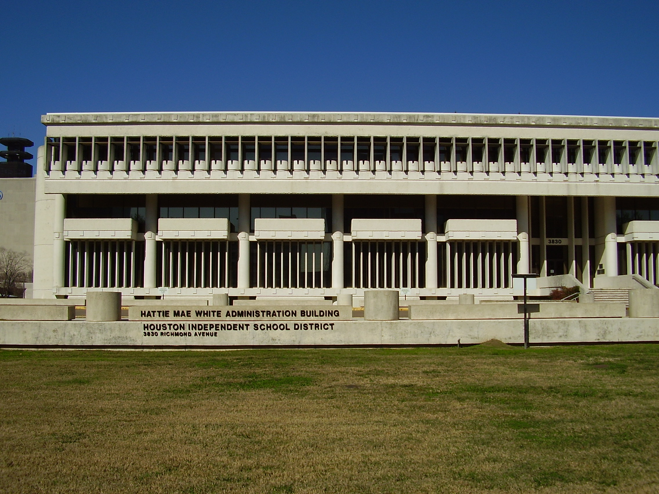 Former Houston Independent School District headquarters: Hattie Mae White Administration Building